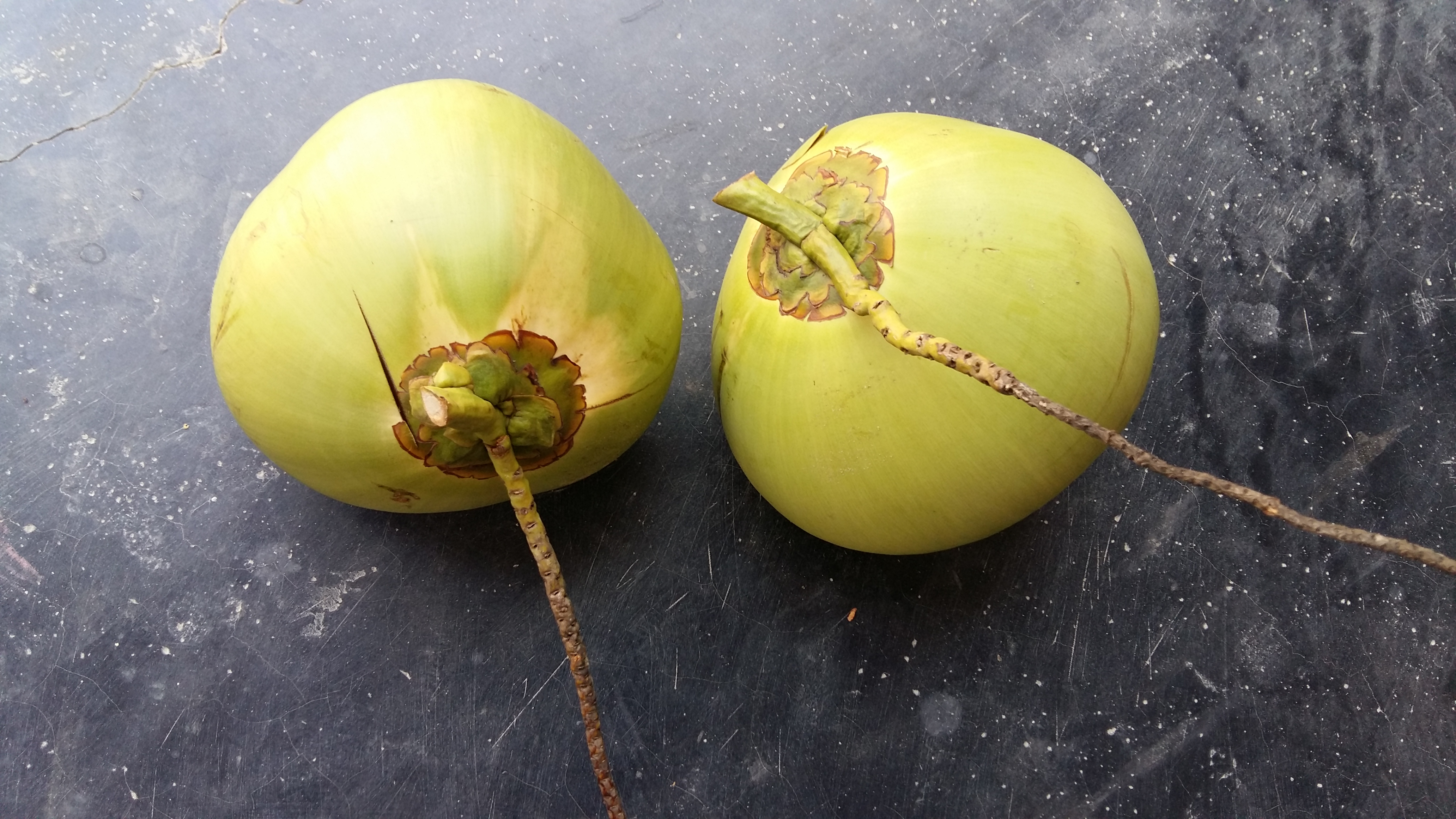 healthy fruit